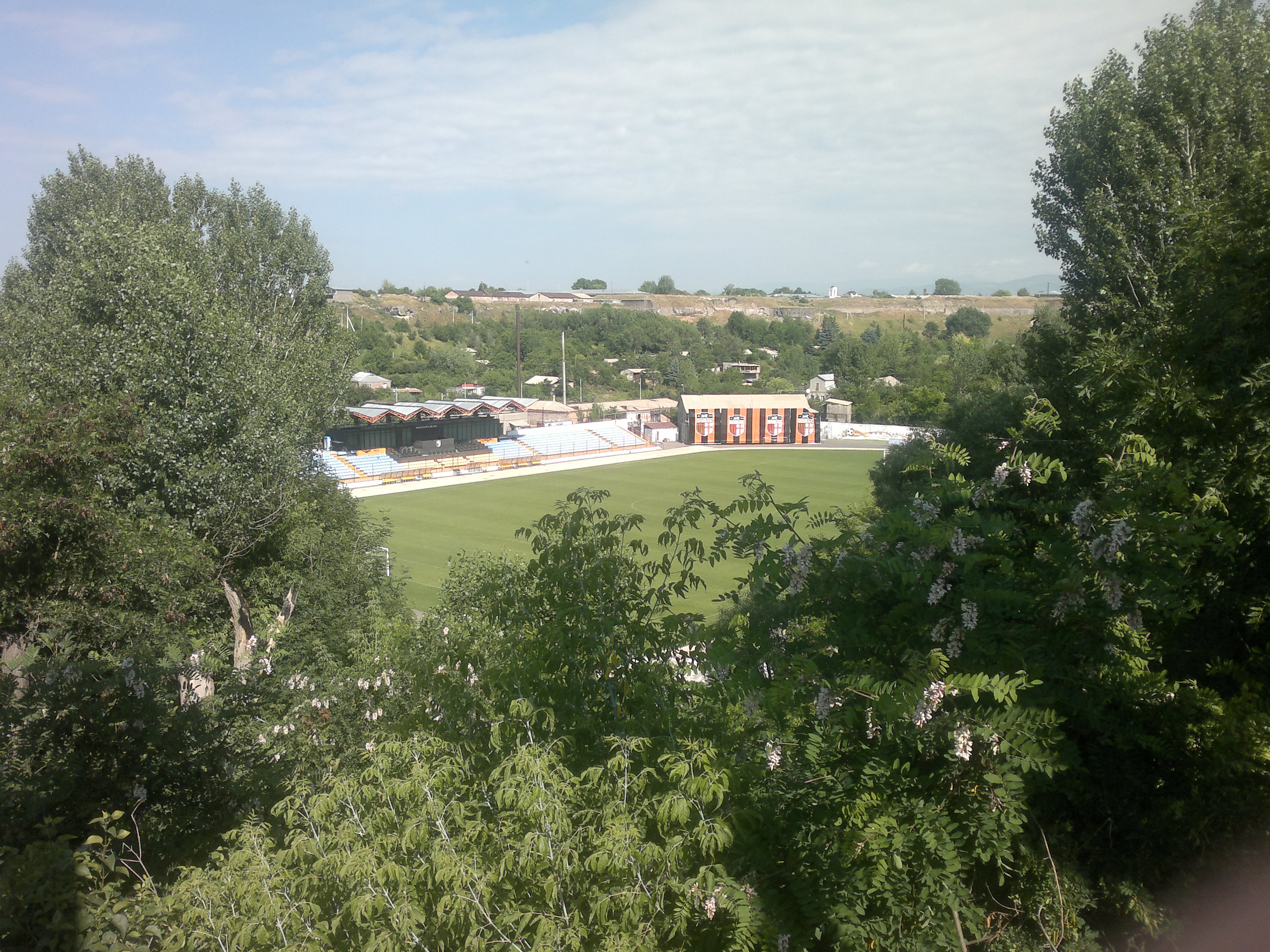 Gyumri City Stadium 1/14